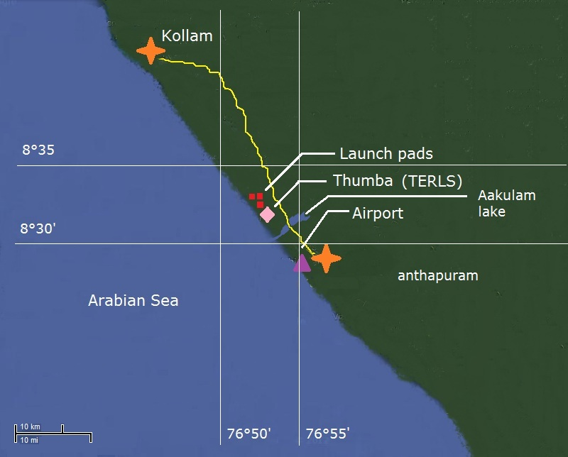 Thumba Equatorial Rocket Launching Station (TERLS) location map.